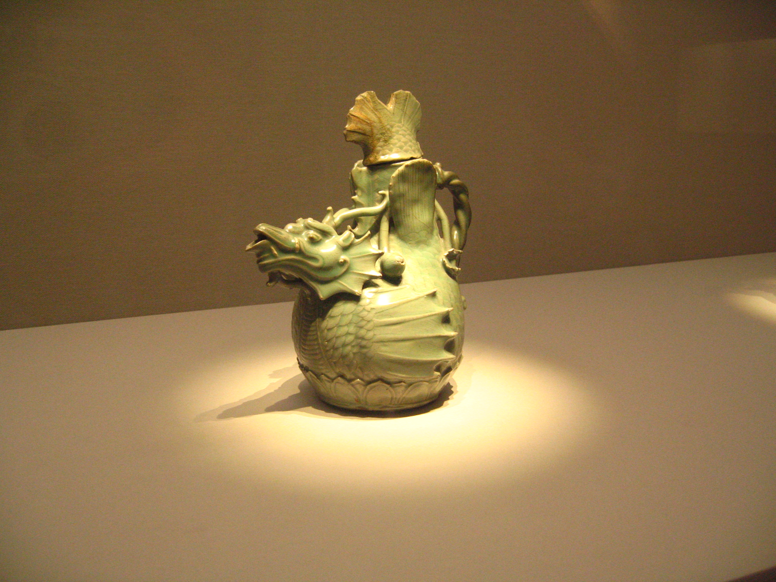 Goryeo-era Celadon incense burner exhibited at National Museum of Korea, in Yongsan-gu, Seoul. It is the 61st National treasures of South Korea